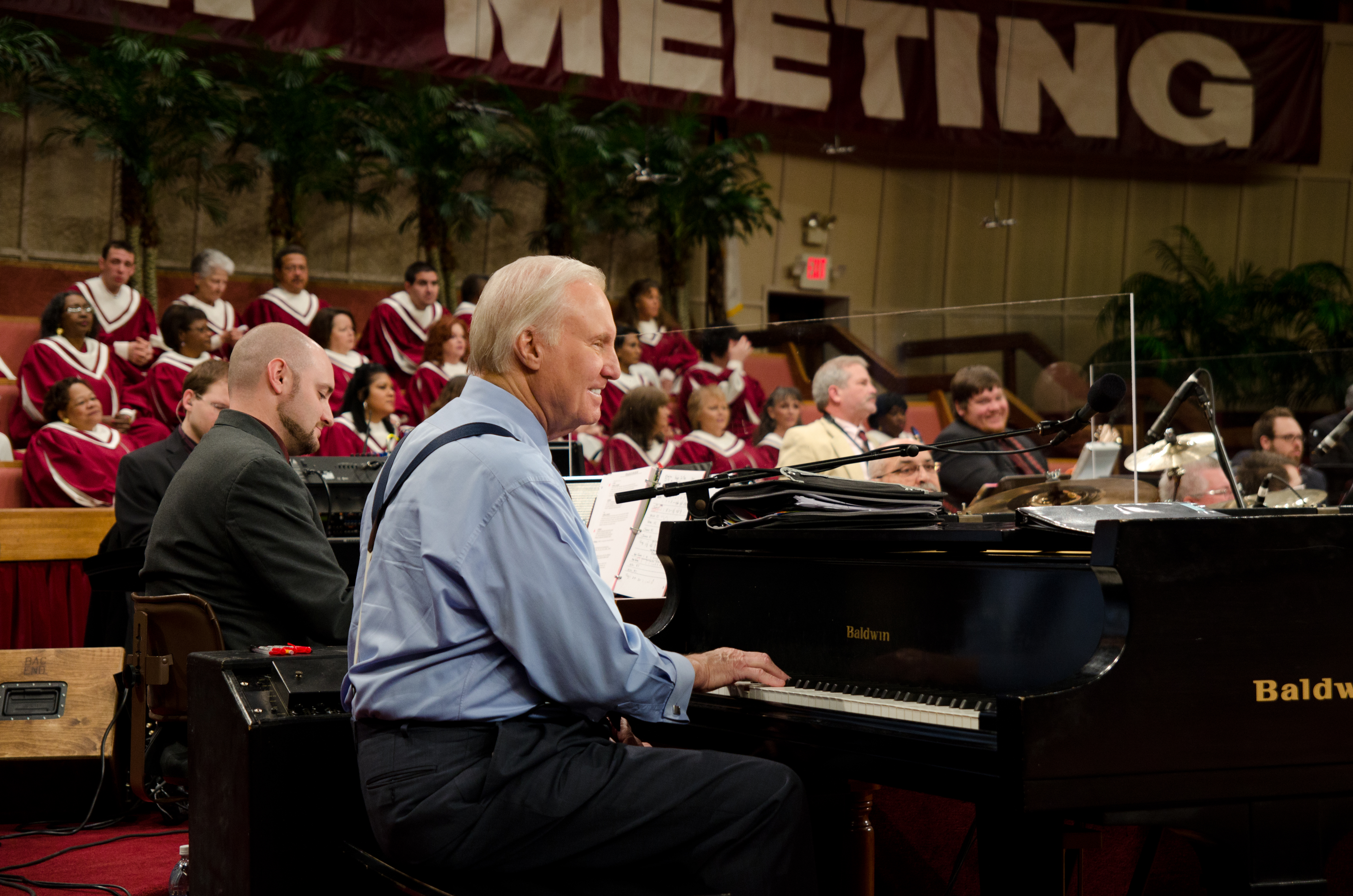 Reverend Jimmy Swaggart has been in Ministry for 57 years, proclaiming the Gospel of Christ to millions through Television, Radio, Crusades and the Internet.